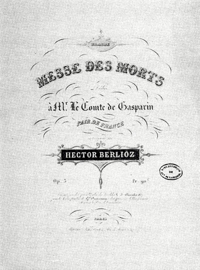 Cover page of the first edition of "Grande Messe des morts" ("Requiem") by Hector Berlioz, Paris, 1838